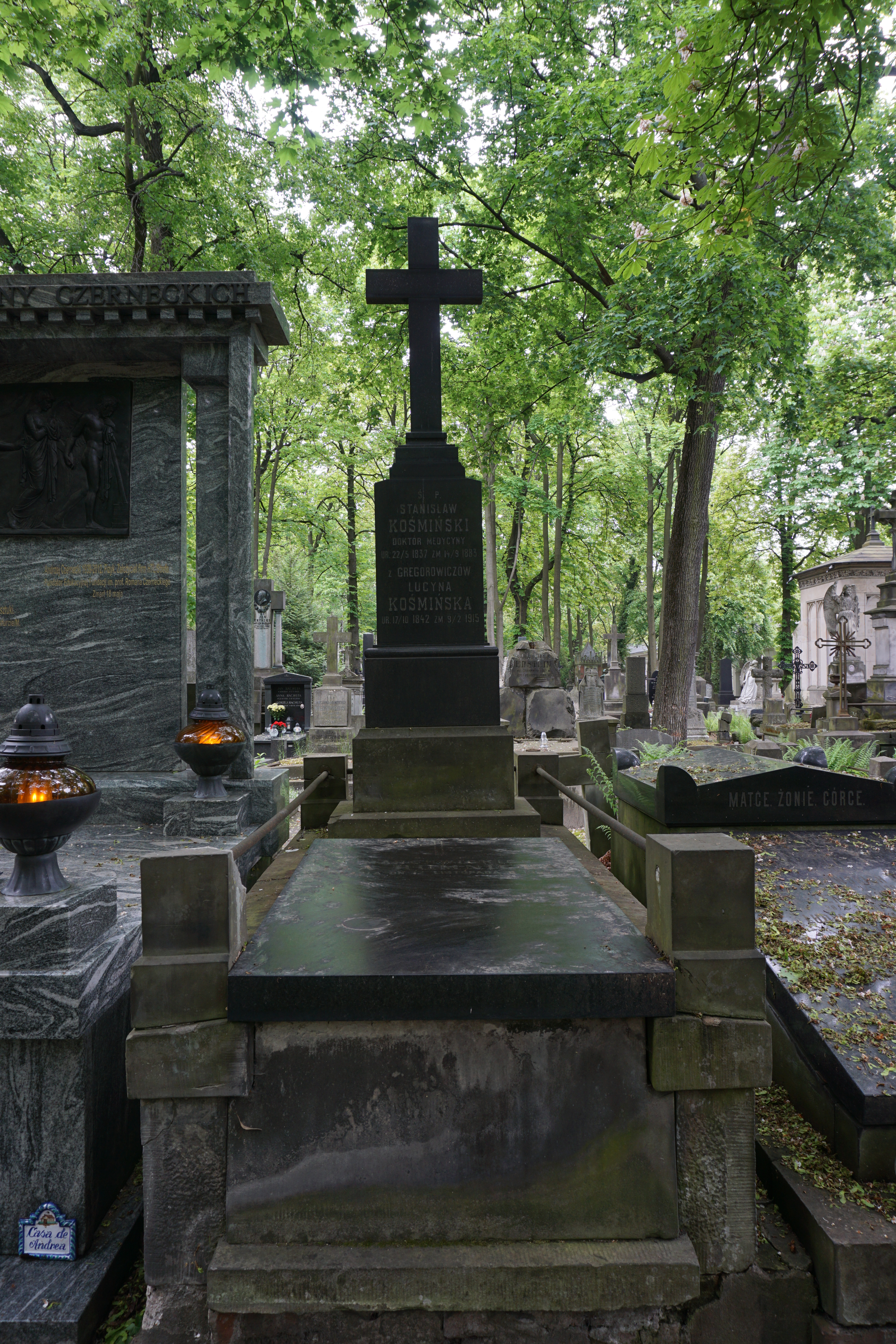 The grave of Stanisław Kośmiński at the Powązki Cemetery (section 22, row 4, grave 17)